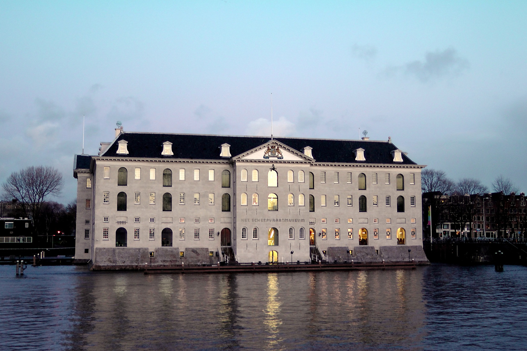 The Nederlands Scheepvaartmuseum (Netherlands Maritime Museum) in Amsterdam - Photo by Pejman Akbarzadeh (Persian Dutch Network)